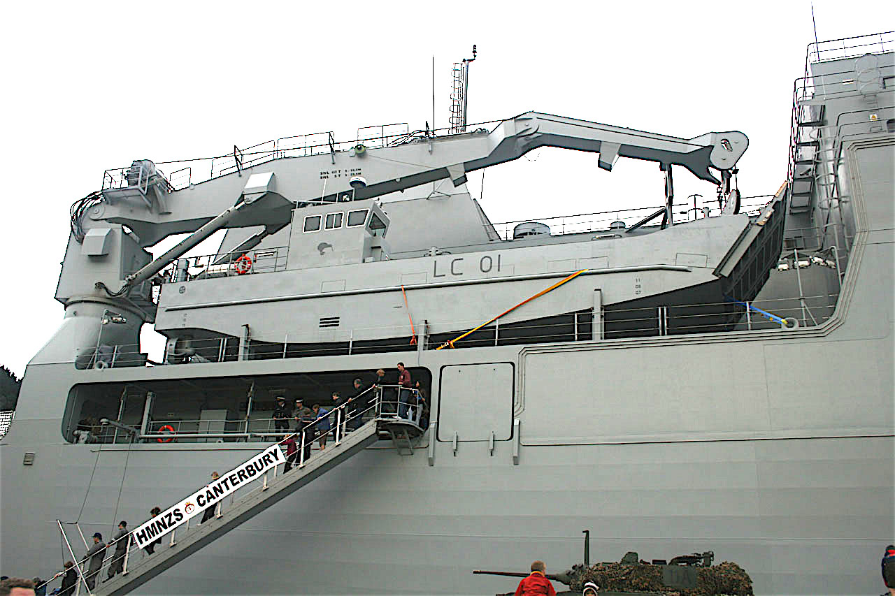 Close up of one of the two medium landing craft on HMNZS Canterbury. 1 July 2007, Lyttelton, NZ.